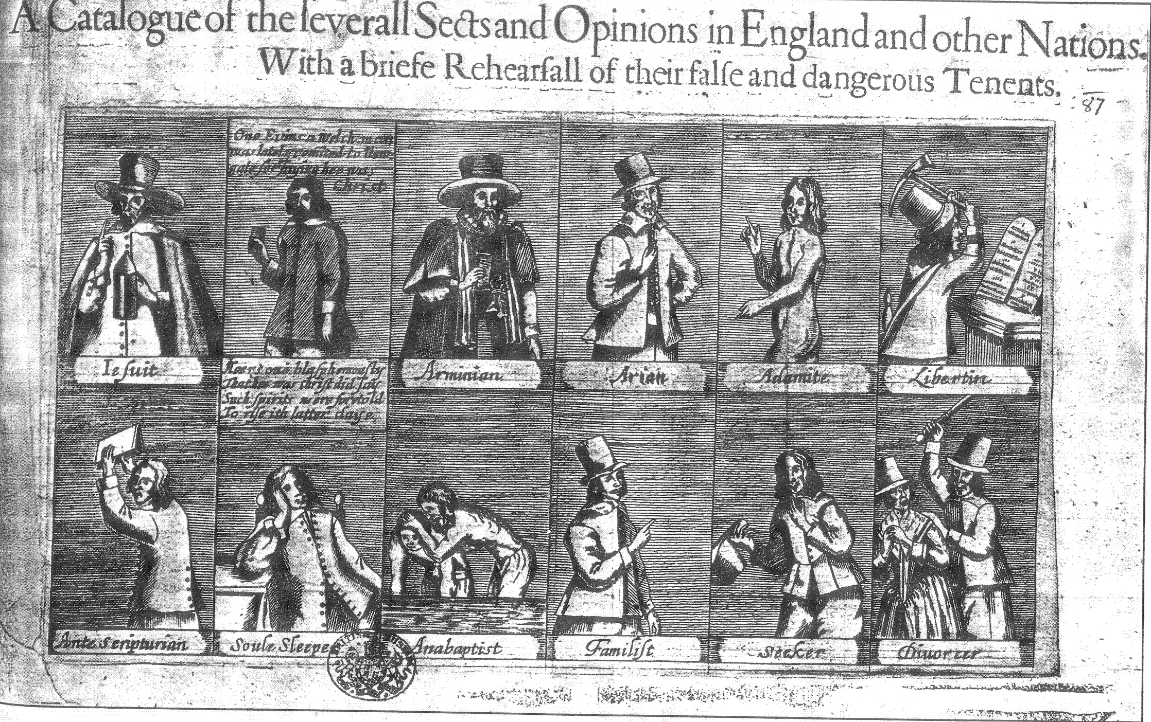 A Catalogue of the Severall Sects and Opinions in England and other Nations: With a briefe Rehearsall of their false and dangerous Tenents. Broadsheet. 1647 Jesuits Welsh blasphemer Arminians Arians Adamites (shown naked) Libertin (i.e. antinomians) (picture of man preparing to take a pick-axe to the Ten Commandments) Antescripturians Soul sleepers Anabaptists Familists Seekers Divorcers (picture of man beating his wife)